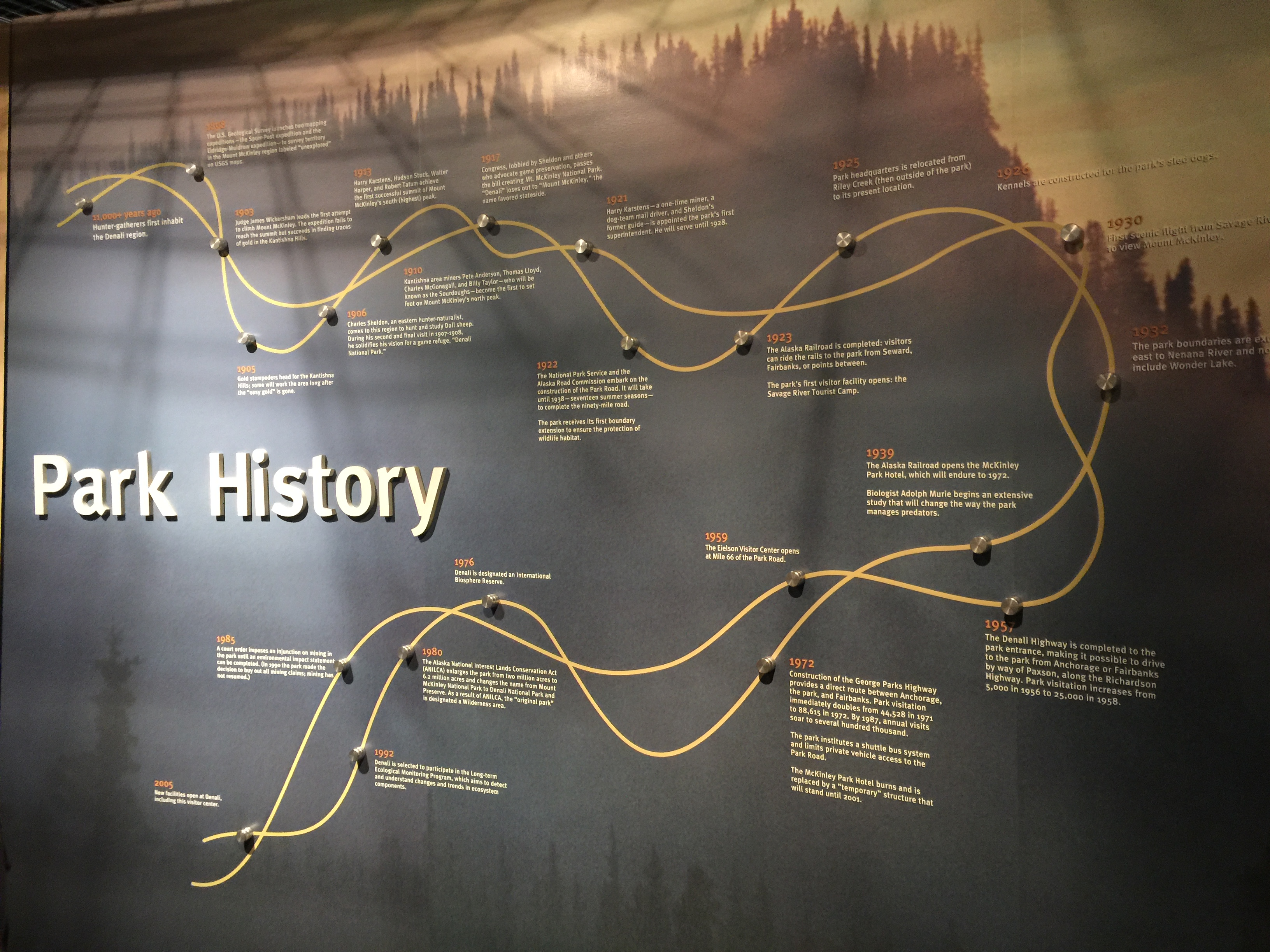 Denali Park History; Denali Visitor Center, 2017